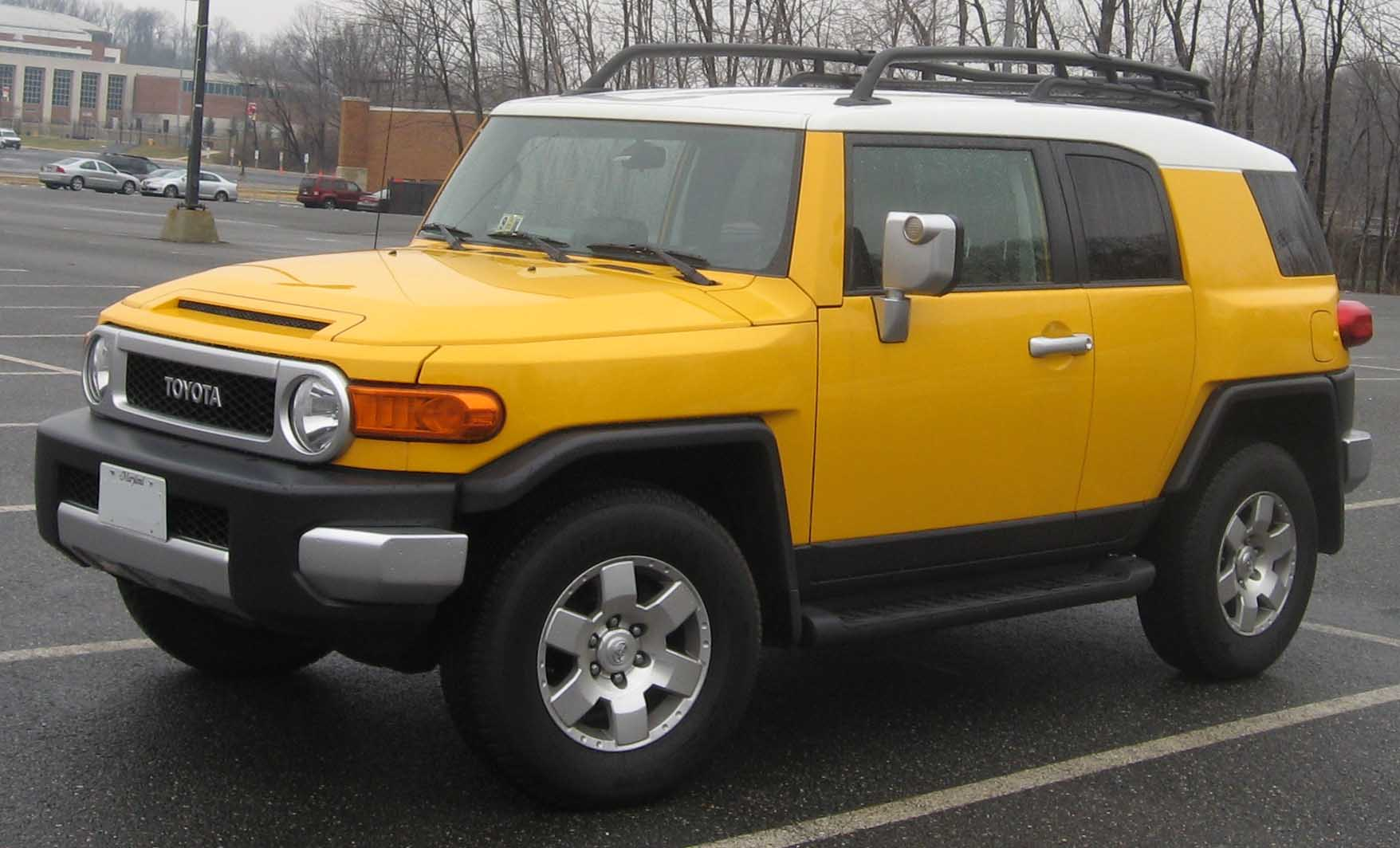 2007-2008 Toyota FJ Cruiser photographed in College Park, Maryland, USA.